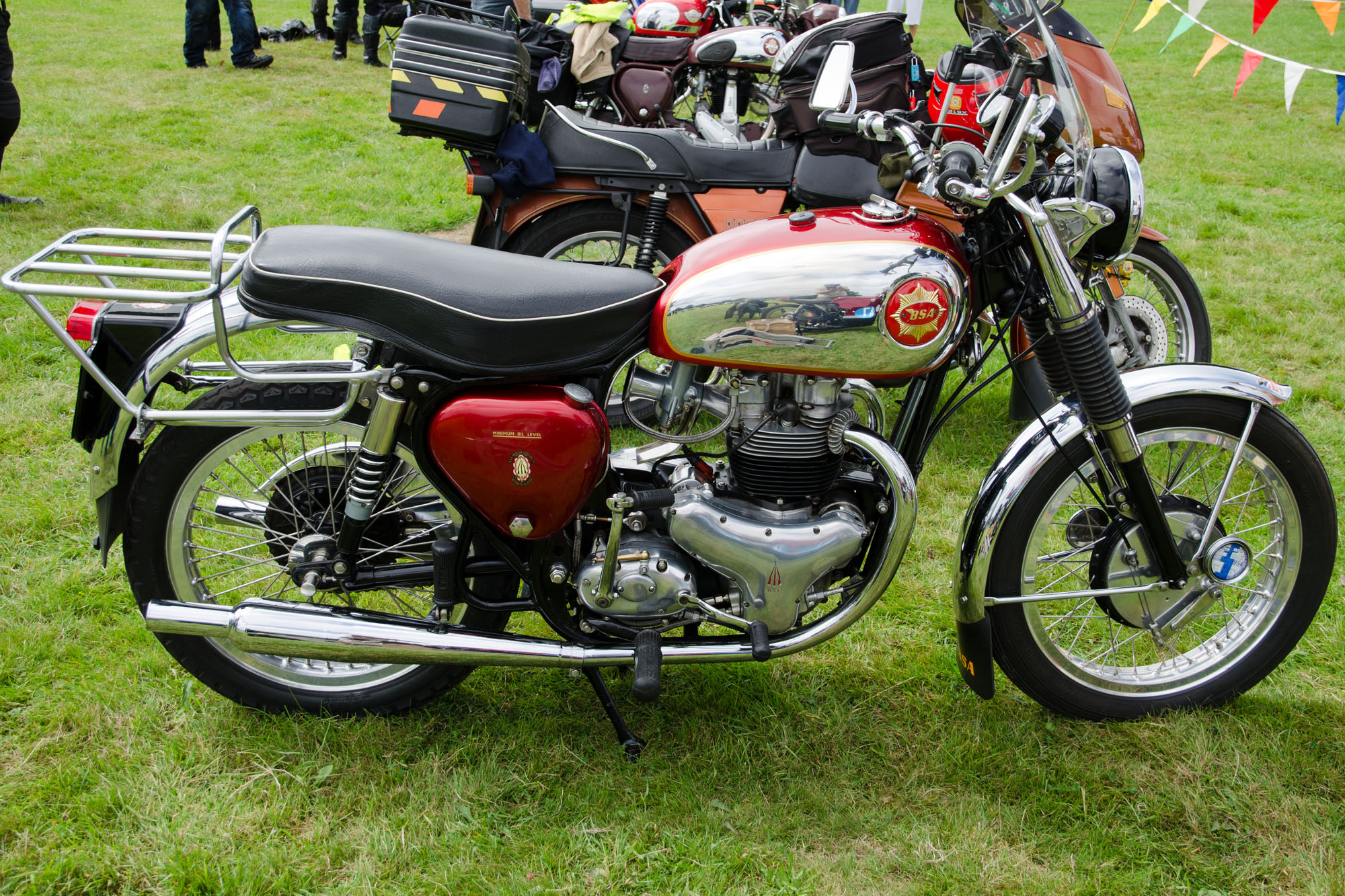 Bodelwyddan Classic Car Show 20/07/2014